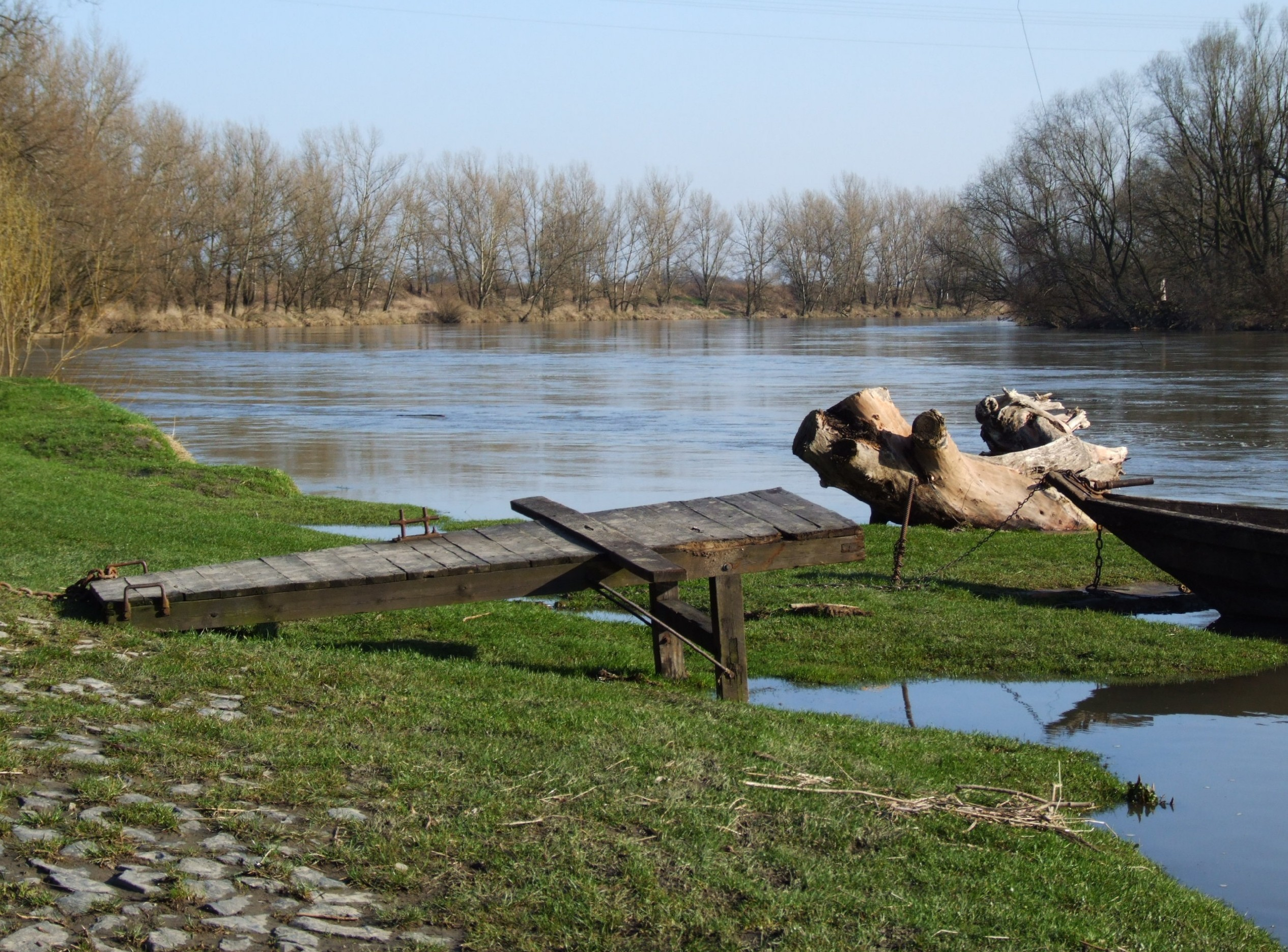 River Oder in Zdzieszowice (Deschowitz, 1936-45 Oderthal), Upper Silesia Ślůnski: Rzyka Uodra we mjeśće Zdźeszowicy